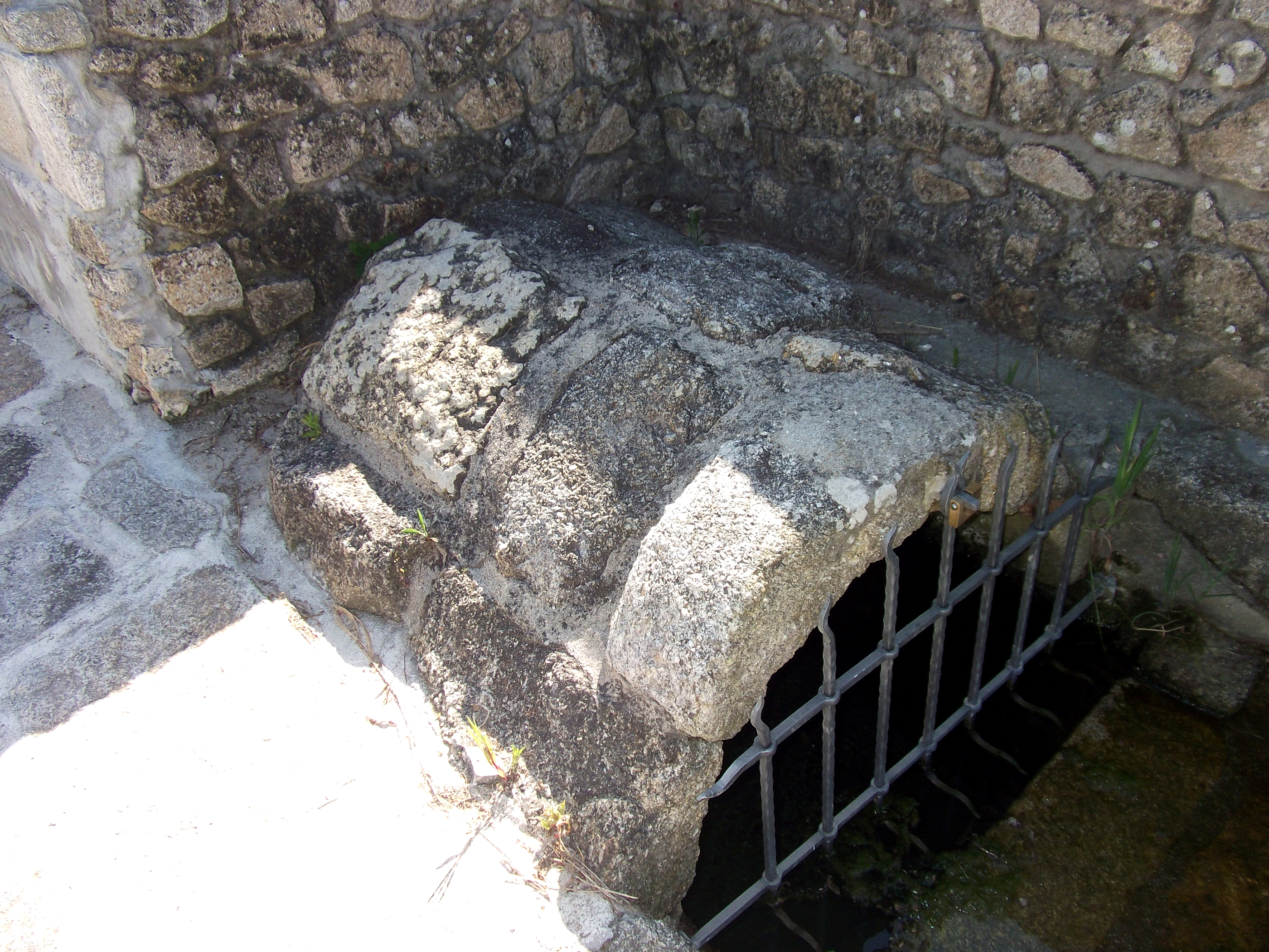 Crasto/ Moira Fountain, Castro Culture/Roman Empire/Middle Ages